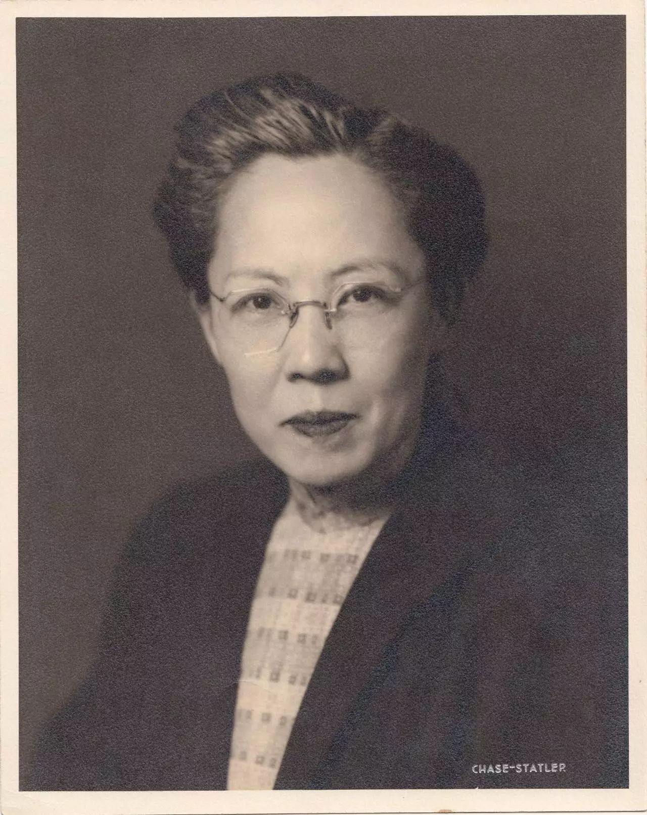 Photo of Chinese pioneer pediatrician Chen Cuizhen (1898-1958)